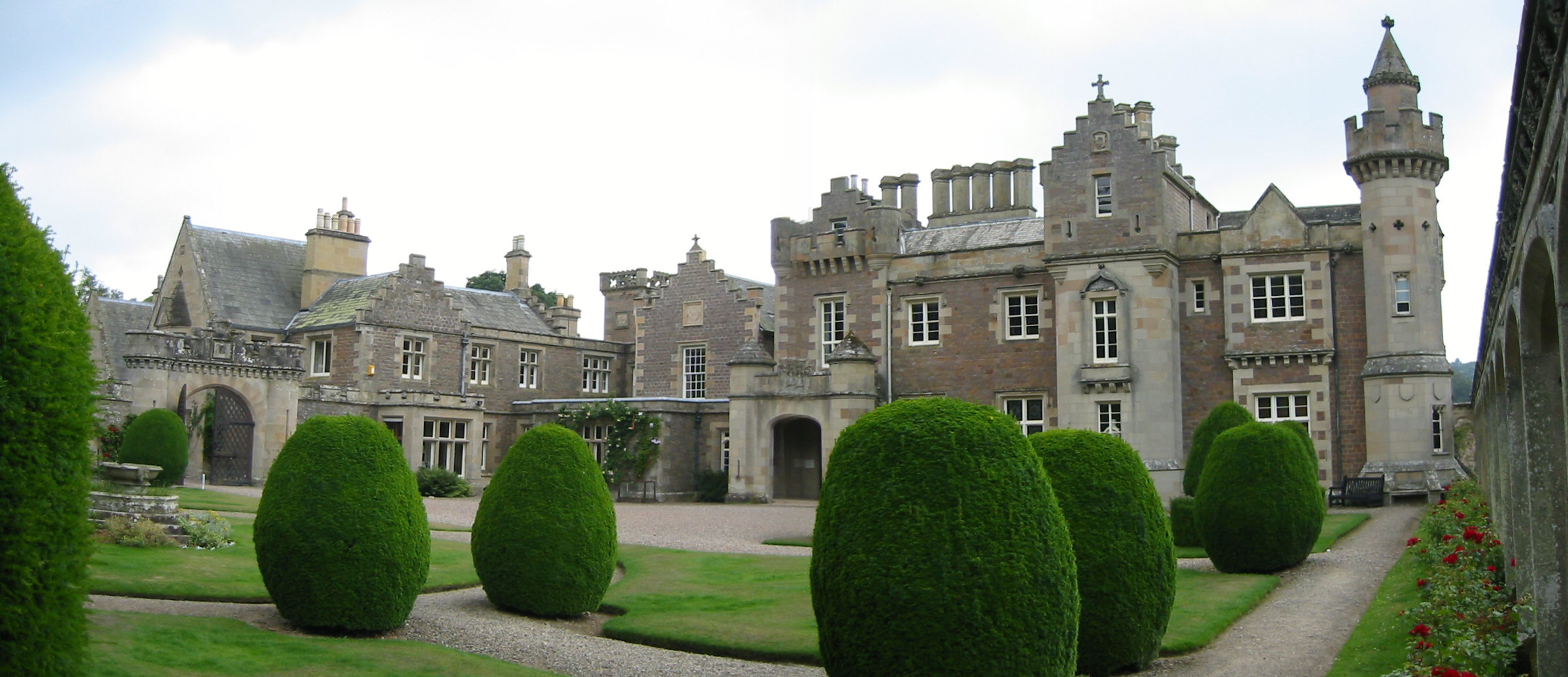 Topiary in garden at Abbotsford House, in the Scottish Borders.